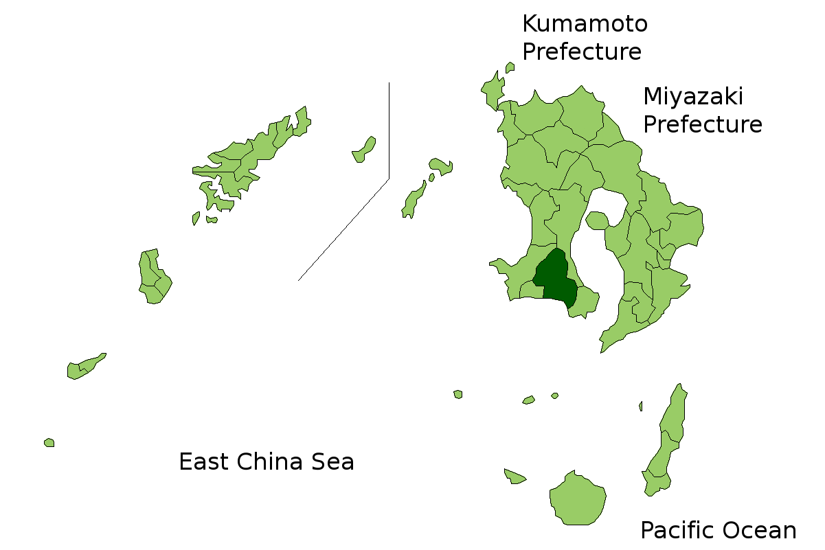 Location Map of Minamikyushu in Kagoshima Prefecture, Japan